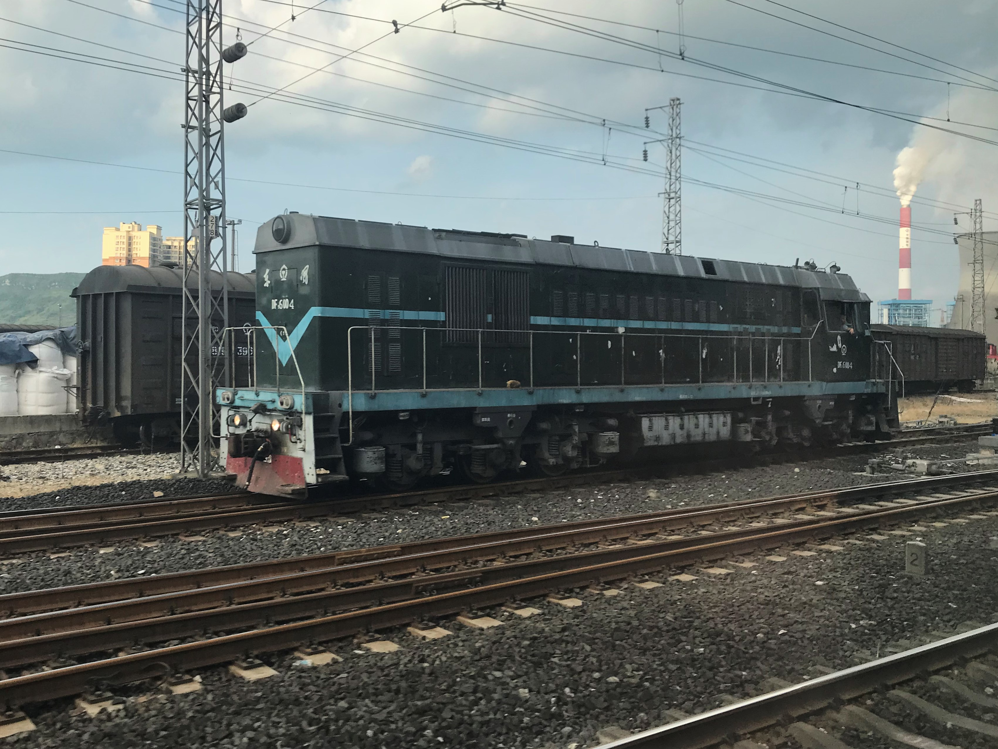 A bonus surprise